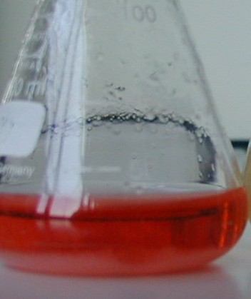 Supernatant of a Streptomyces davawensis culture. The picture shows the typical red color of Roseoflavin.